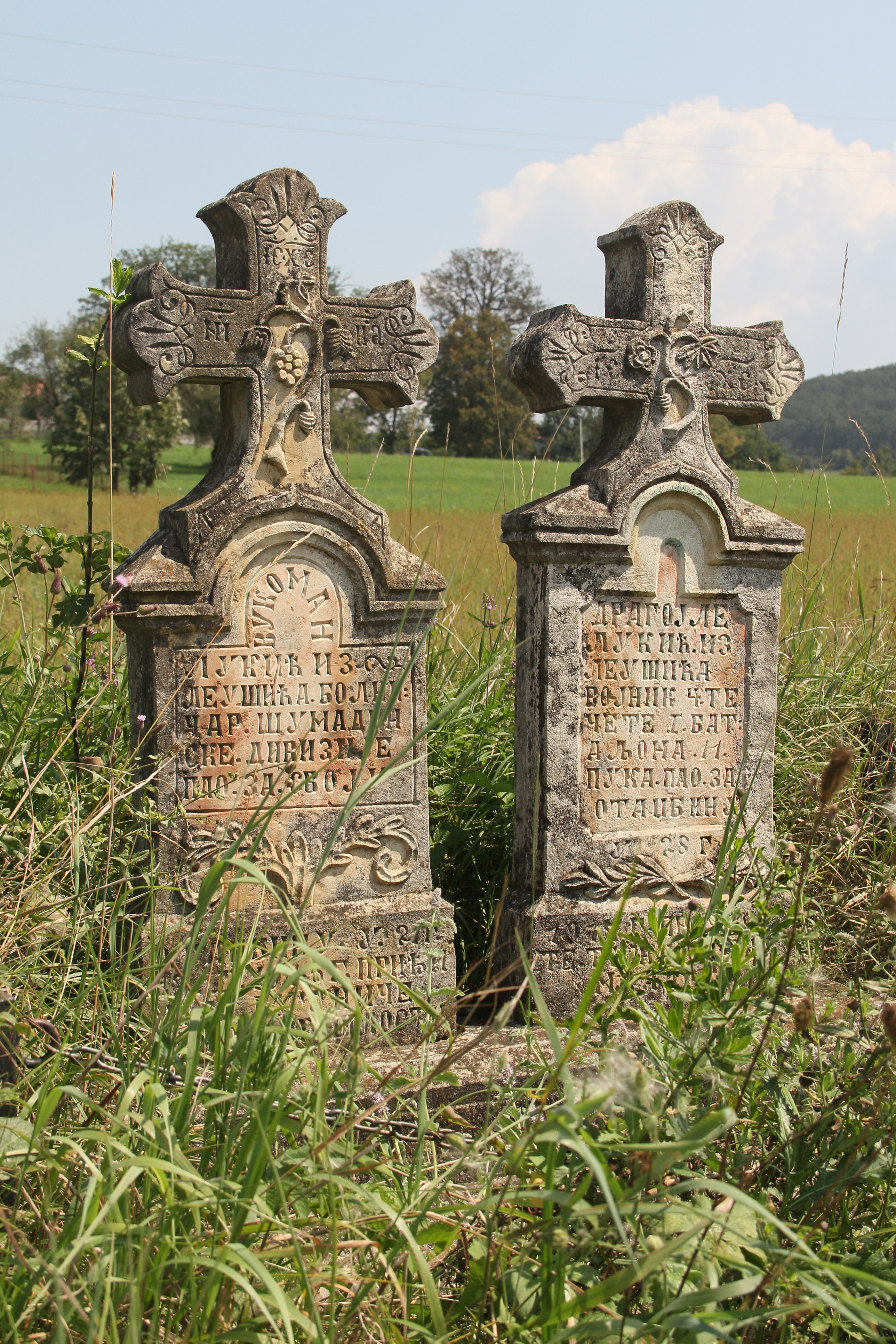 Roadside gravestones erected in memory of Lukic brothers, Vukoman and Dragojlo, located in the village of Leusici (the municipality of Gornji Milanovac), Serbia.